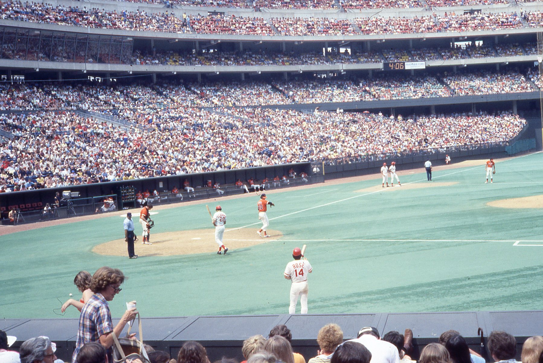 On field from left to right: Dick Stello (home plate umpire), Marc Hill (catcher), César Gerónimo (batter, #20), John Curtis (pitcher, #40), Pete Rose (on-deck circle), Alex Grammas (third base coach), Dave Concepción (runner at 3rd), Billy Williams (3rd base umpire, back turned), Darrell Evans (third baseman). Source: San Francisco Giants at Cincinnati Reds Box Score, July 9, 1978.